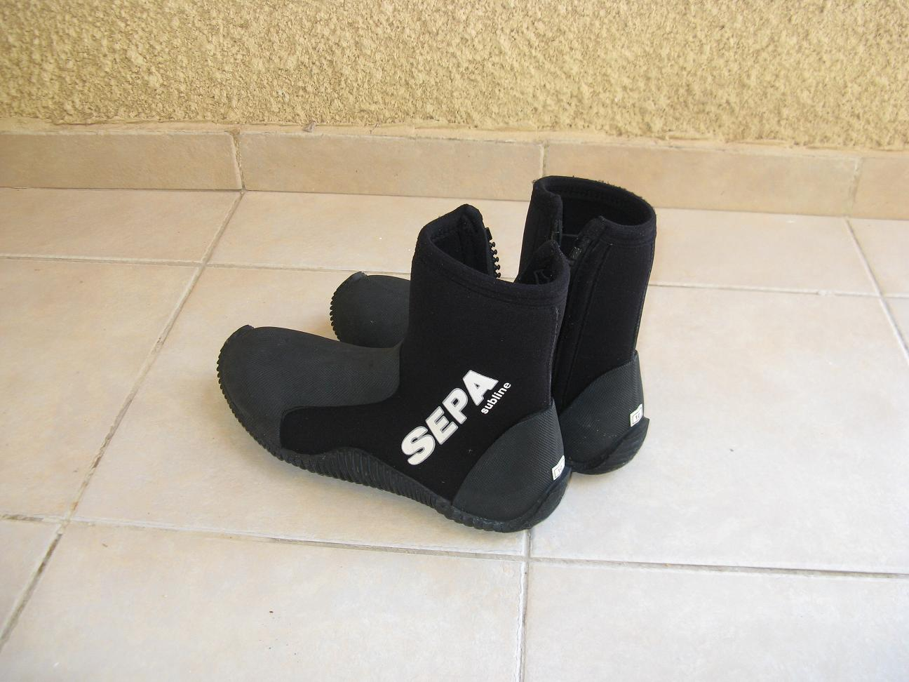 "Soft" diving boots